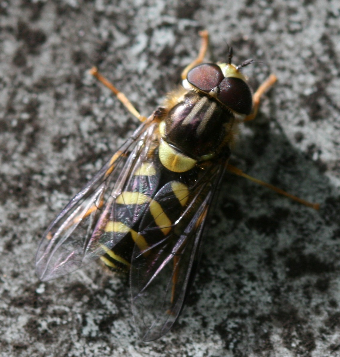 A Dasysyrphus albostriatus male